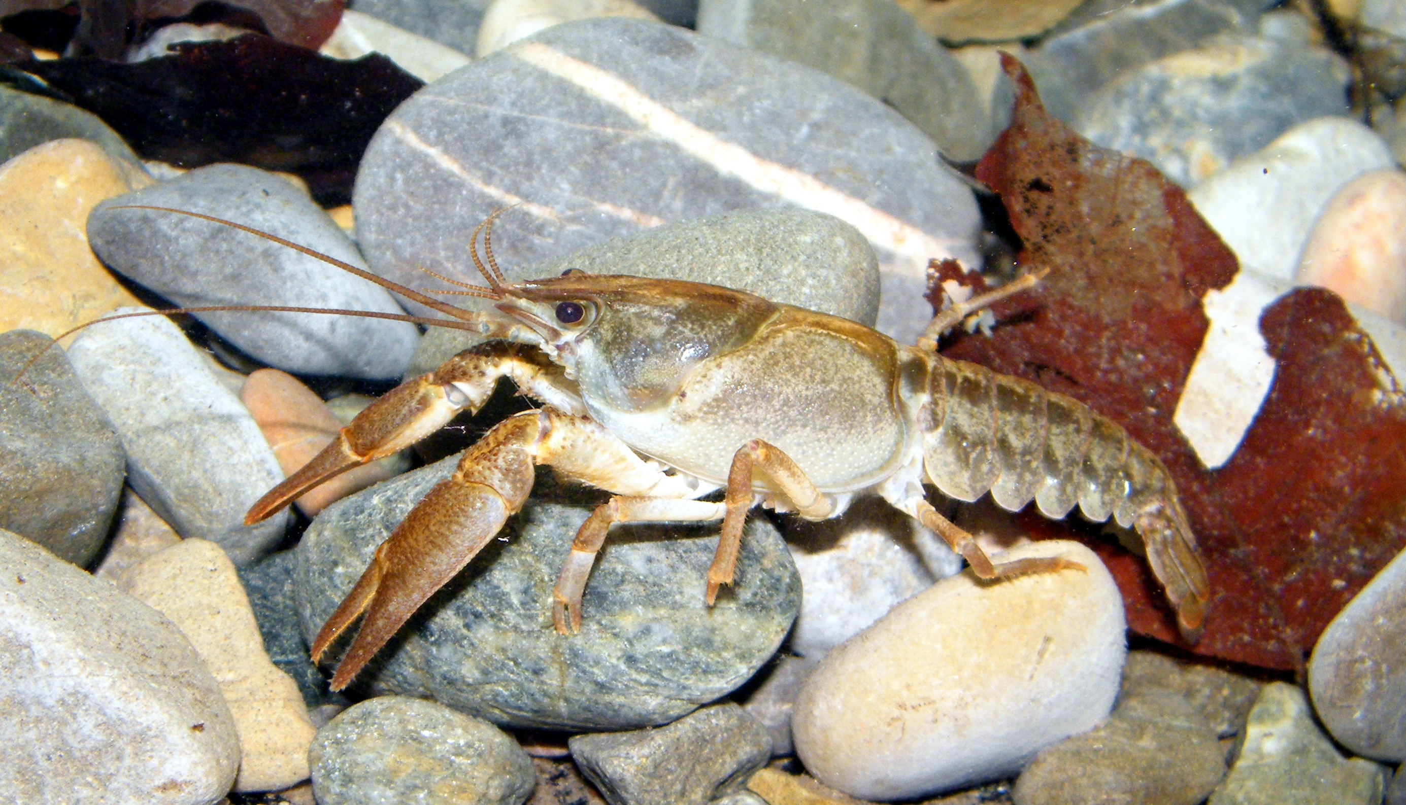 Austropotamobius (p.) italicus - the southern lineage of the white-clawed crayfish, which represents probably a valid species.